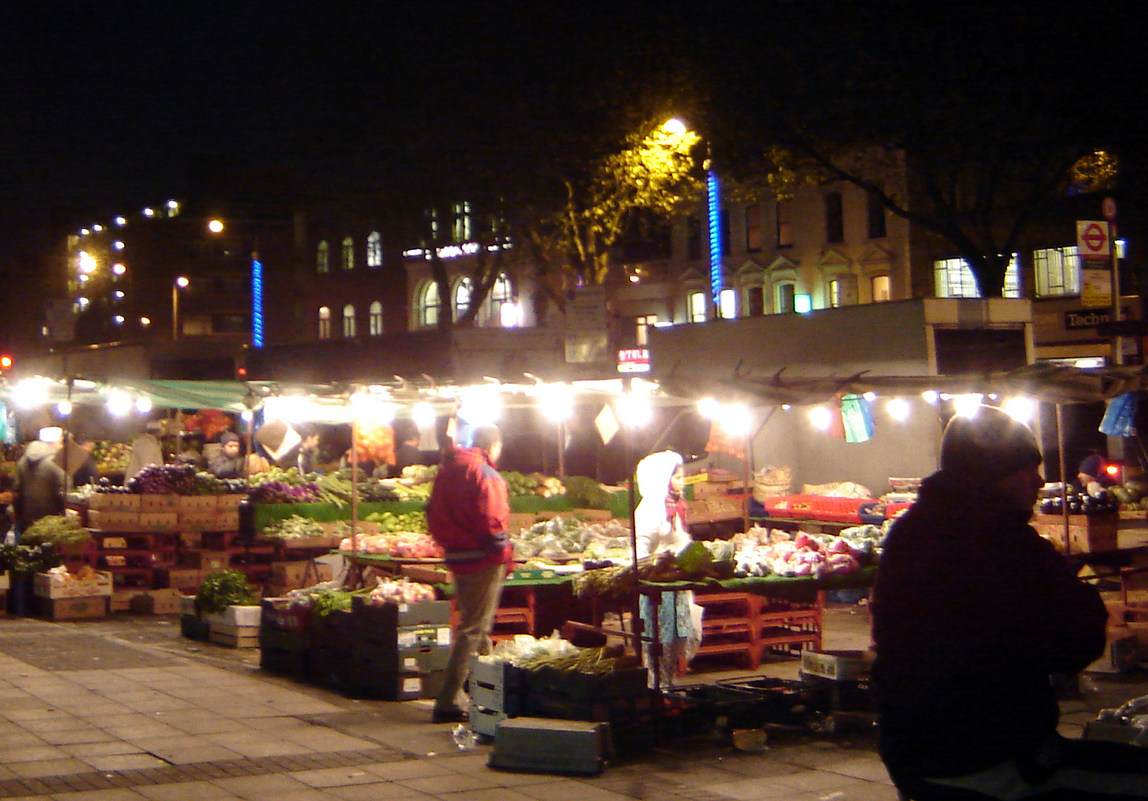 Whitechapel Marker at night in East End of London